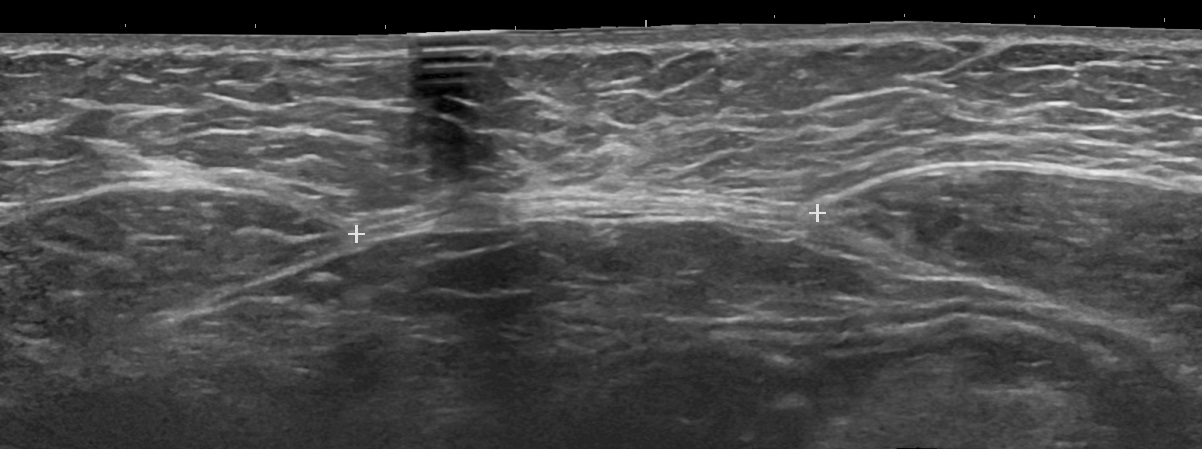 edit Abdominal ultrasonography in the axial plane, between the xiphoid process and the navel, of a 38 year old woman who has developed diastasis recti after pregnancy. It shows a distance of 3.5 cm between the rectus abdominis muscles (distance between the crosses), but no hernia through the linea alba.